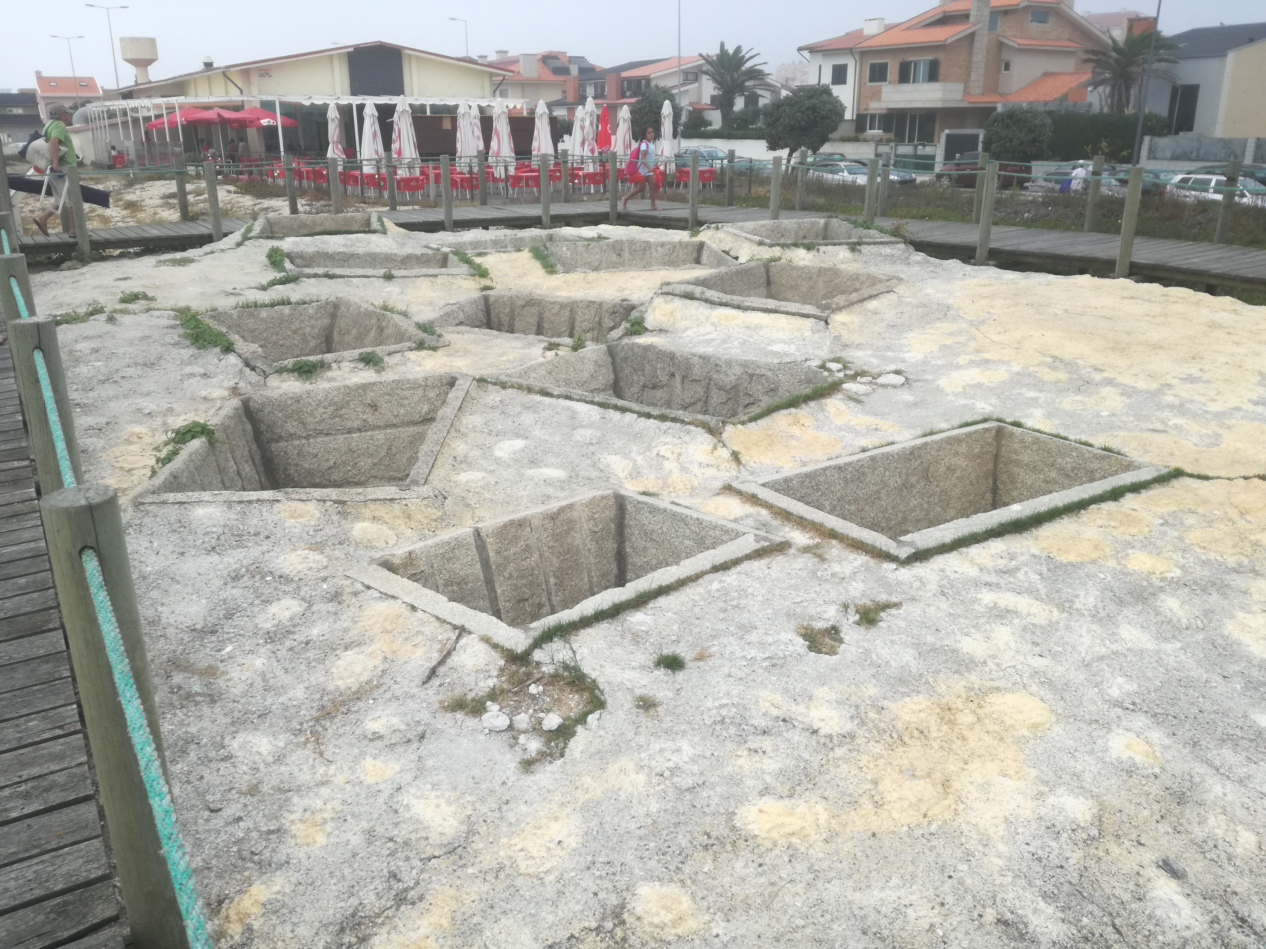 Replicas of Roman fish salting tanks